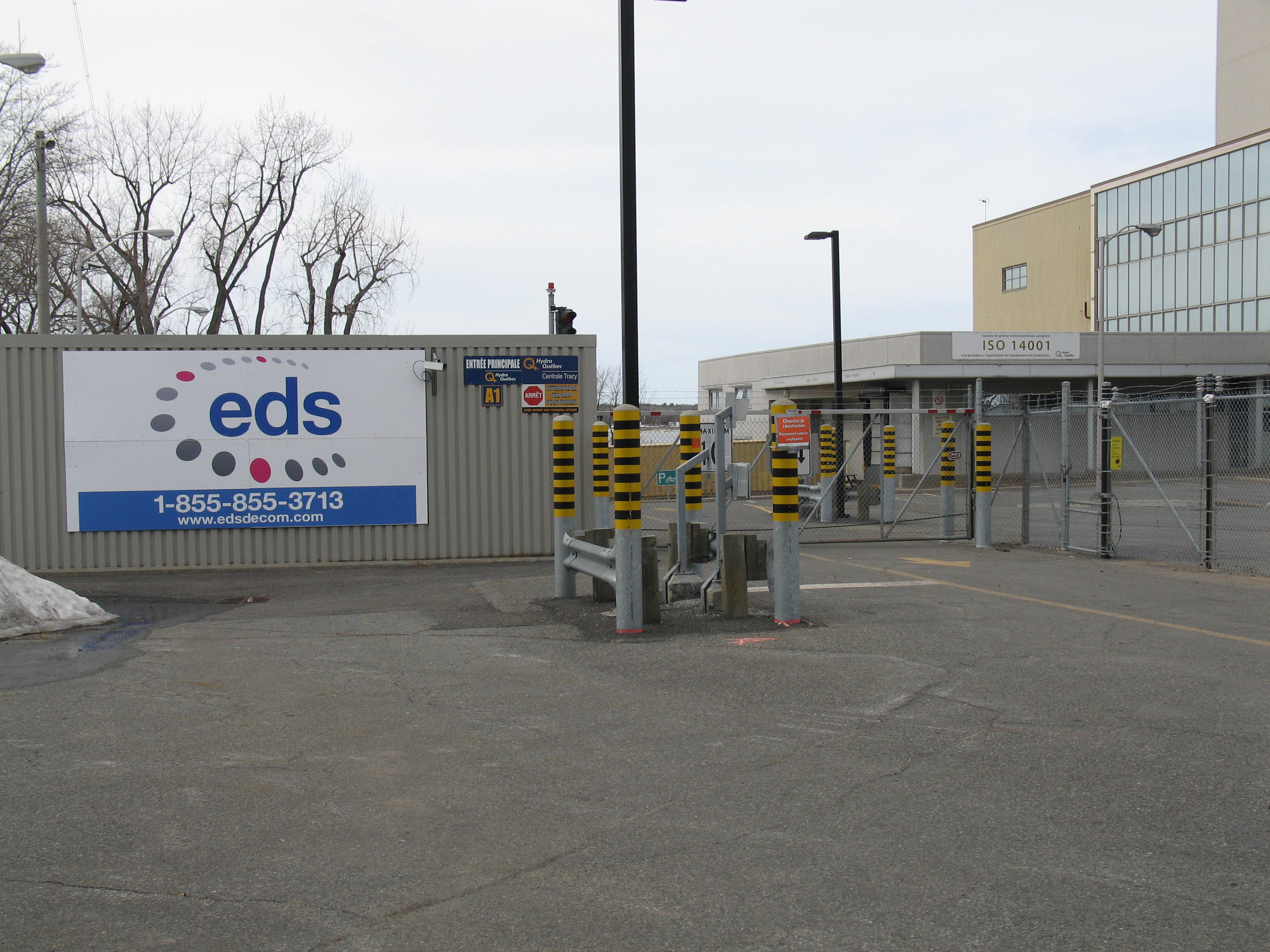 Main entrance of the Tracy Thermal Generating Station in Quebec.